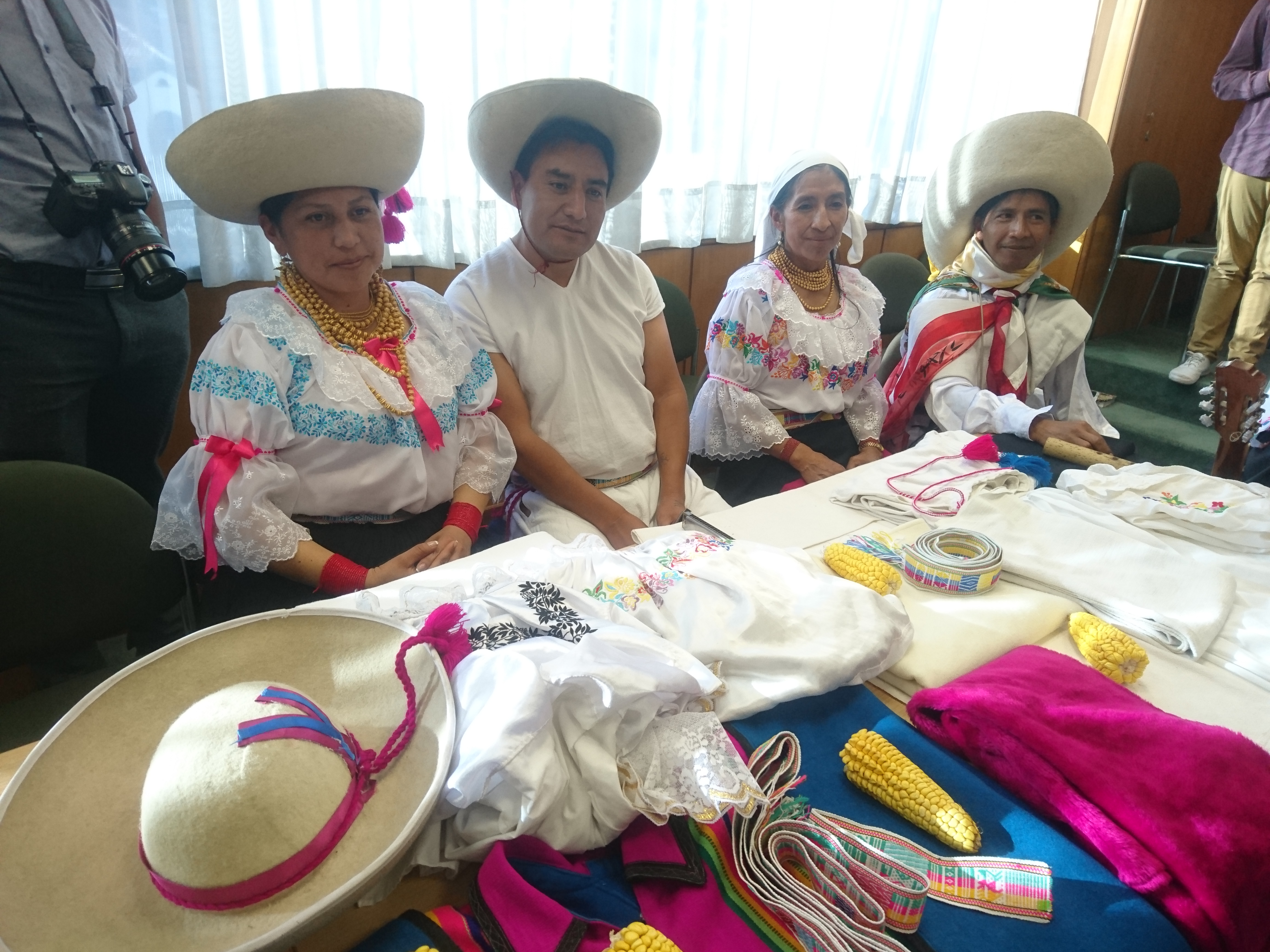 En el Ecuador existen 14 nacionalidades y 18 pueblos, "algunos de ellos con lenguas propias". De estas, once nacionalidades y pueblos están en zonas fronterizas y siete son transfronterizas: Pasto, Shuar, Achuar, Shiwiar, Andwa, Siekopa’i, Sápara y Kichwas, en la región amazónica. Cada uno de estos grupos tienen sus propias costumbres, cultura y vestimenta que los caracterizan This photo has been taken in the country: Ecuador